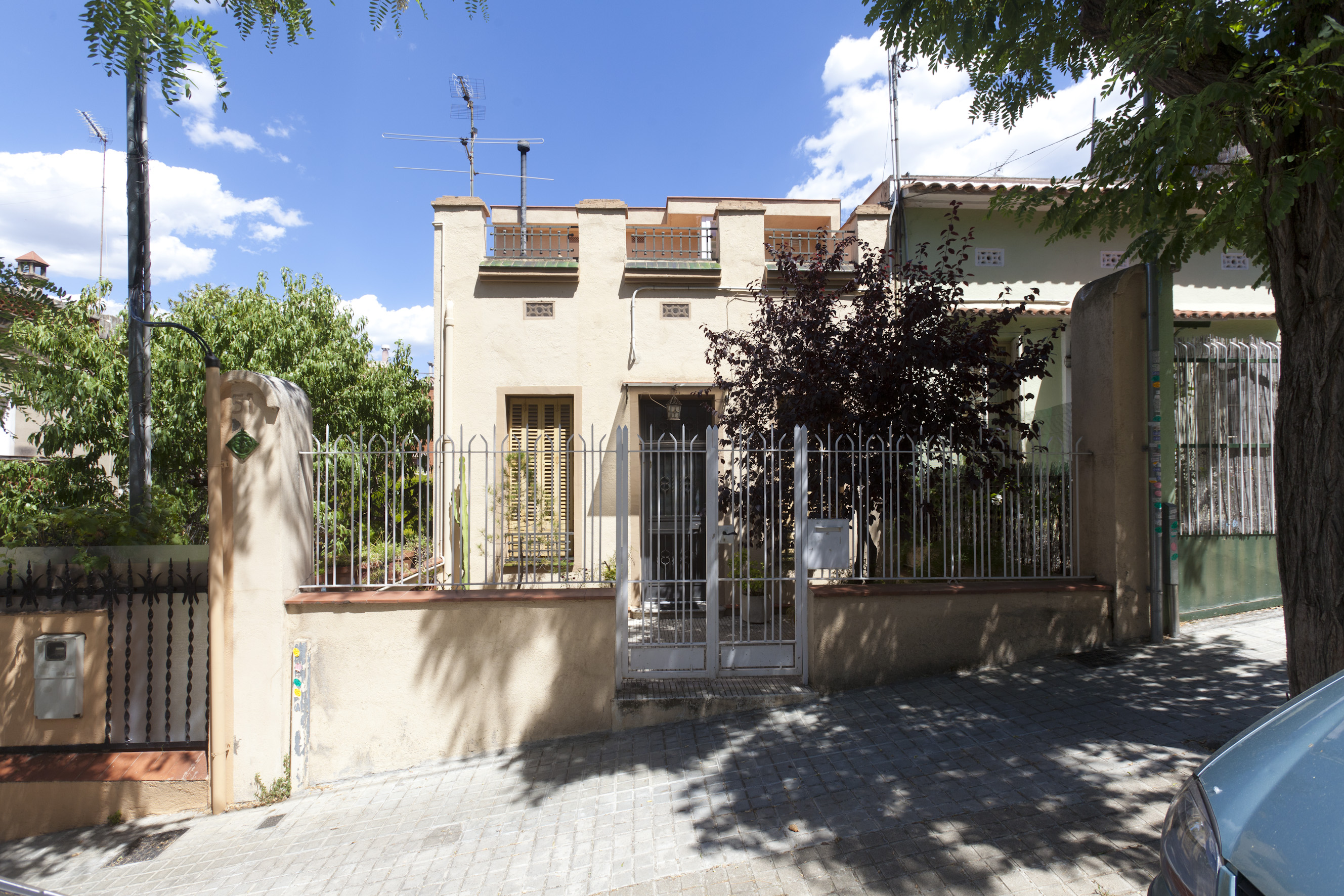 Historical Routes at the Horta-Guinardó District Administration in Barcelona This image was provided to Wikimedia Commons by the Horta-Guinardó District Administration in Barcelona as part of an ongoing cooperative project with Amical Viquipèdia. English | +/−